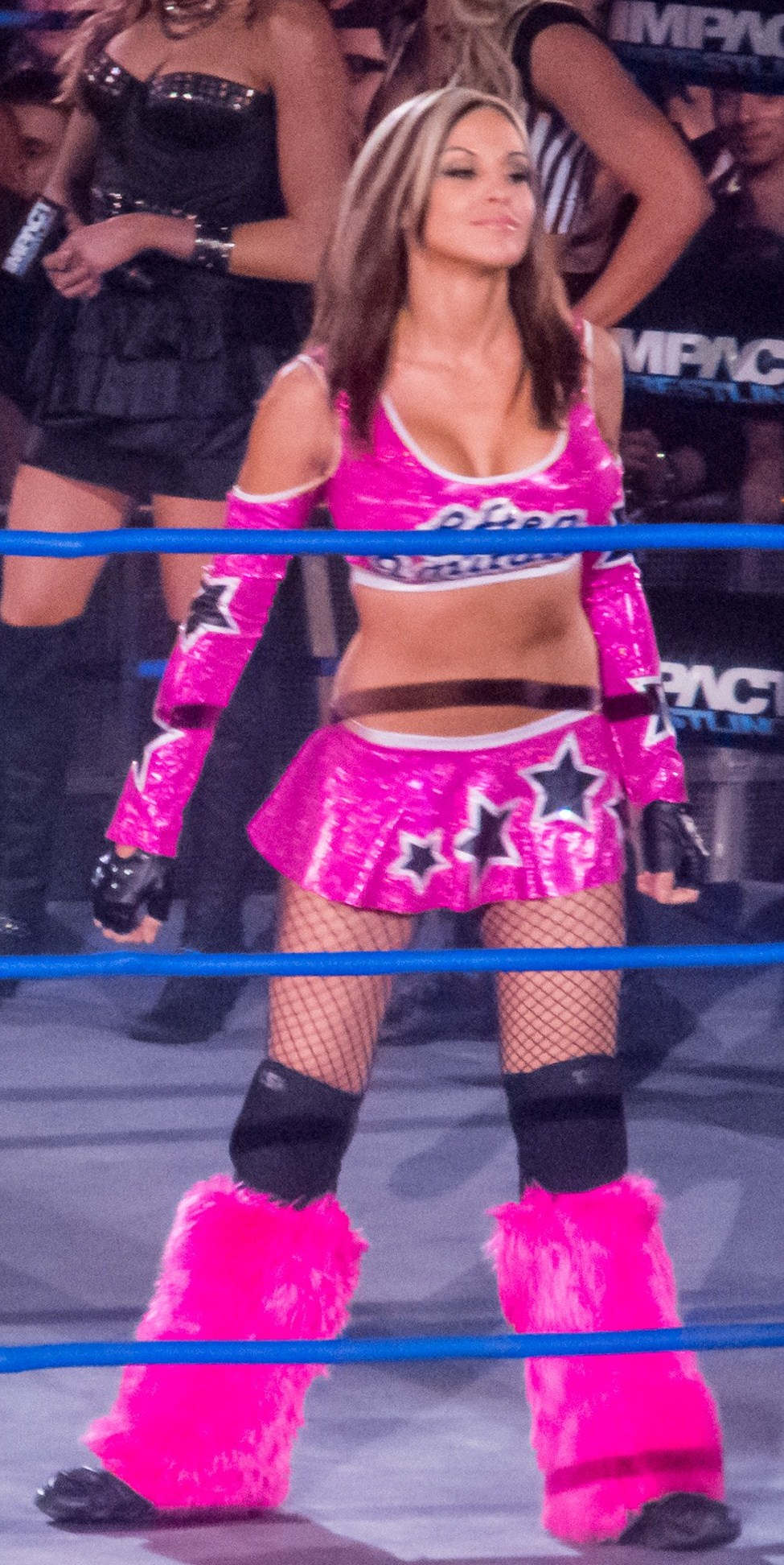 Velvet Sky at the Impact! TV Tapings in Wembley, England on January 26, 2013.